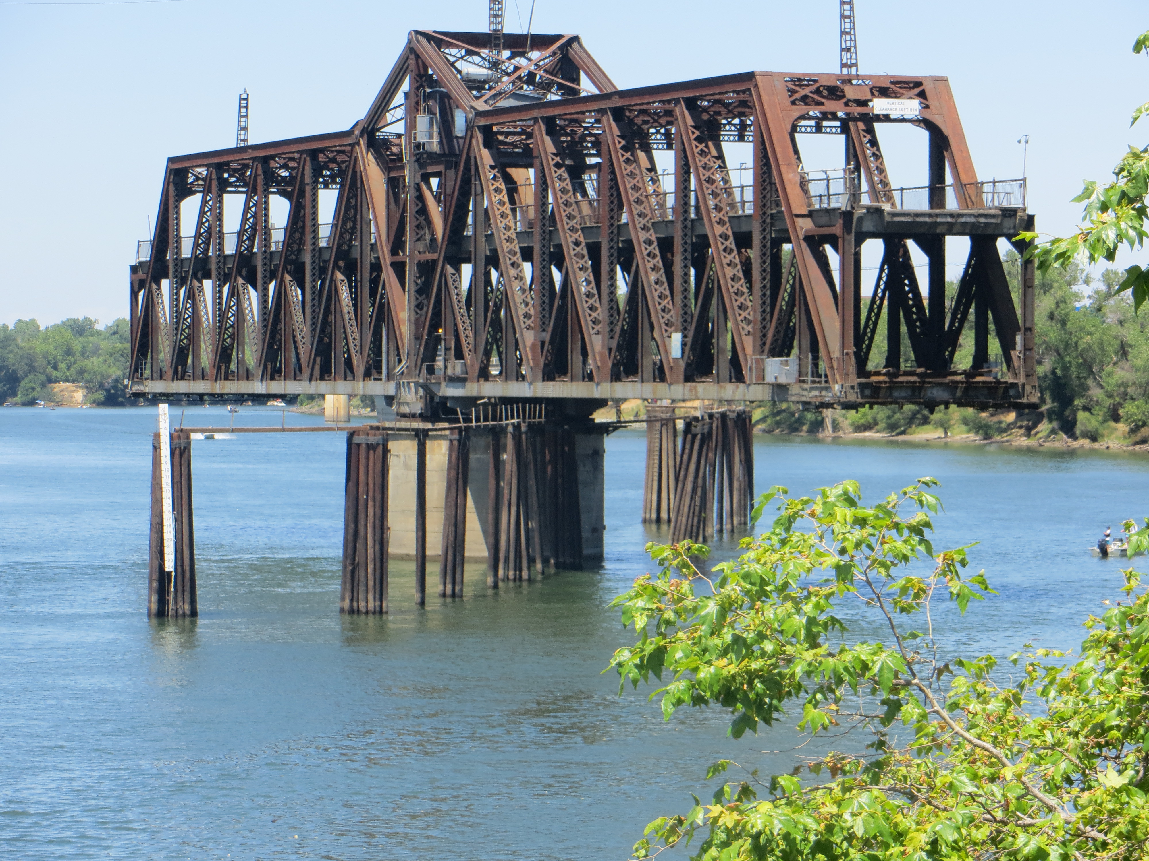 I Street Truss Bridge, Sacramento 35